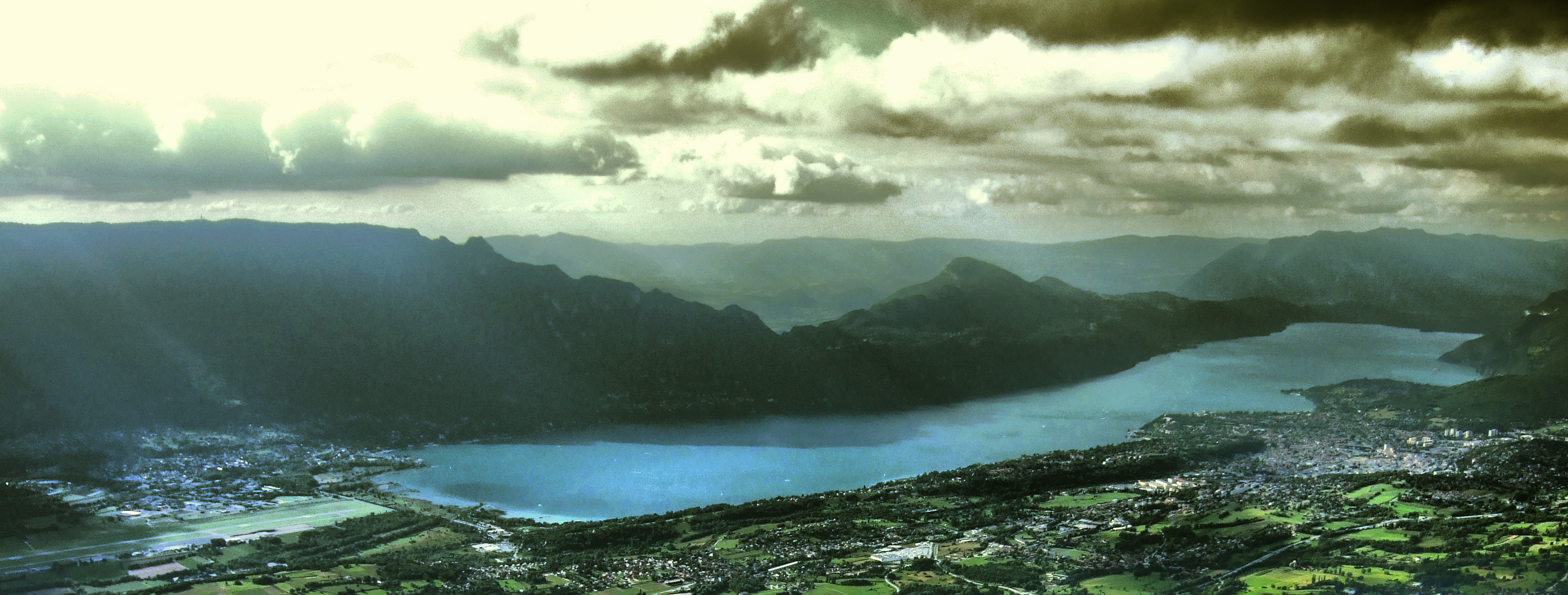 A panoramic view of Lake Bourget (lac du Bourget) in the French Alps, as seen from the Nivolet promontory (1,547m/5,076ft). The city of Aix-les-Bains can be seen on the right hand side of the picture. The Le Bourget/Chambéry airport is visible on the left side of the photograph, at the southern end of the lake. Date of photo: 17 August 2007.